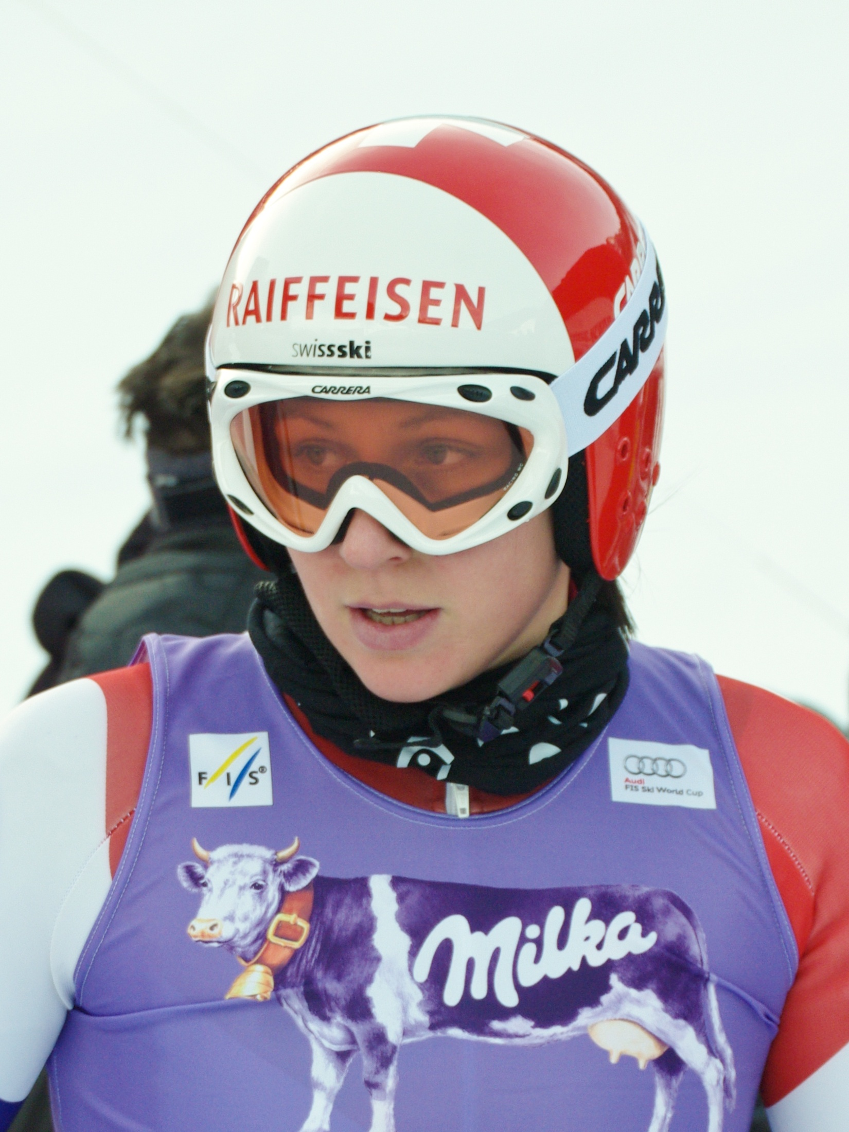 Swiss alpine skier Marianne Abderhalden after the second Downhill training in Altenmarkt-Zauchensee (Austria) on 7 January 2011.